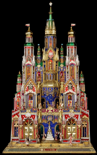 Szopka_krakowska,_Bronisław_Pięcik,_MHK,_1998